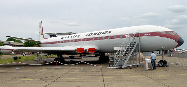 Dan-Air Comet.